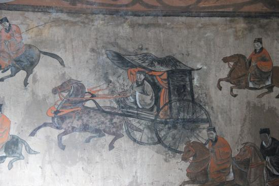 The Dahuting Tomb (Chinese: 打虎亭汉墓, Pinyin: Dahuting Han mu; Wade-Giles: Tahut'ing Han mu) of the late Eastern Han Dynasty (25-220 AD), located in Zhengzhou, Henan province, China, was excavated in 1960-1961 and contains vault-arched burial chambers decorated with murals showing scenes of daily life. For further information, see the Baidu article (in Chinese): 打虎亭汉墓. Click here for more pictures and a step-by-step walkthrough of the tomb, from the outside, down a stairwell, and through the vaulted burial chambers.